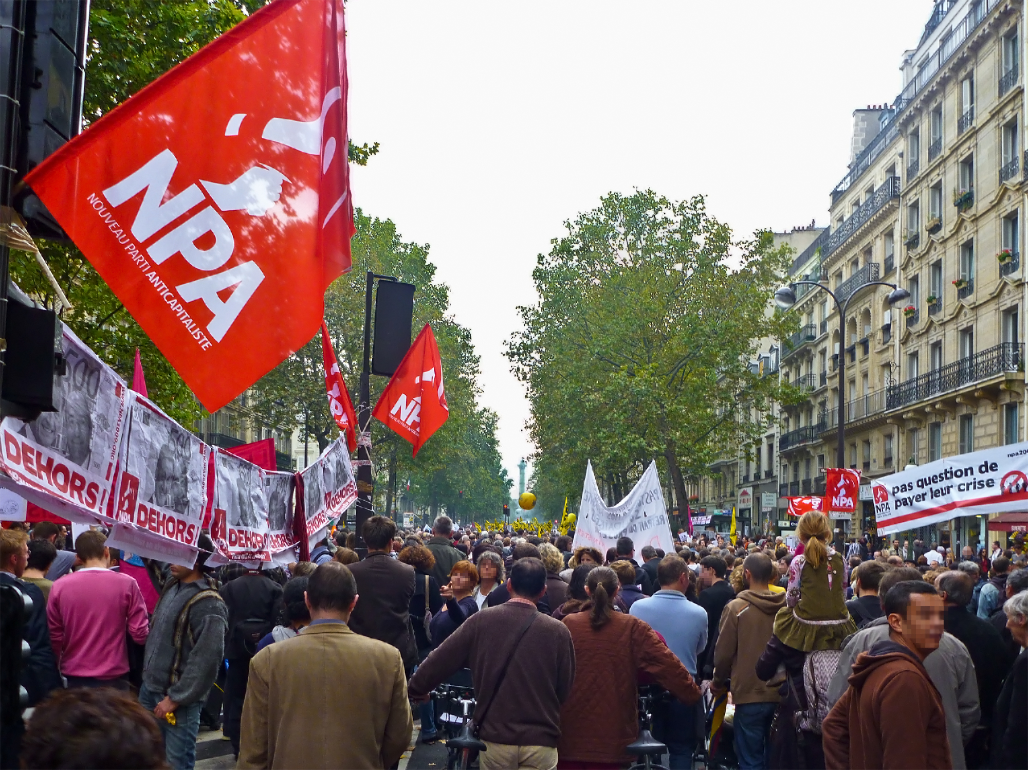 Demonstration against the pension reform, Paris, France. The demonstrators are heading for the 'Place de la Bastille', before reaching the 'Place de la Nation'.